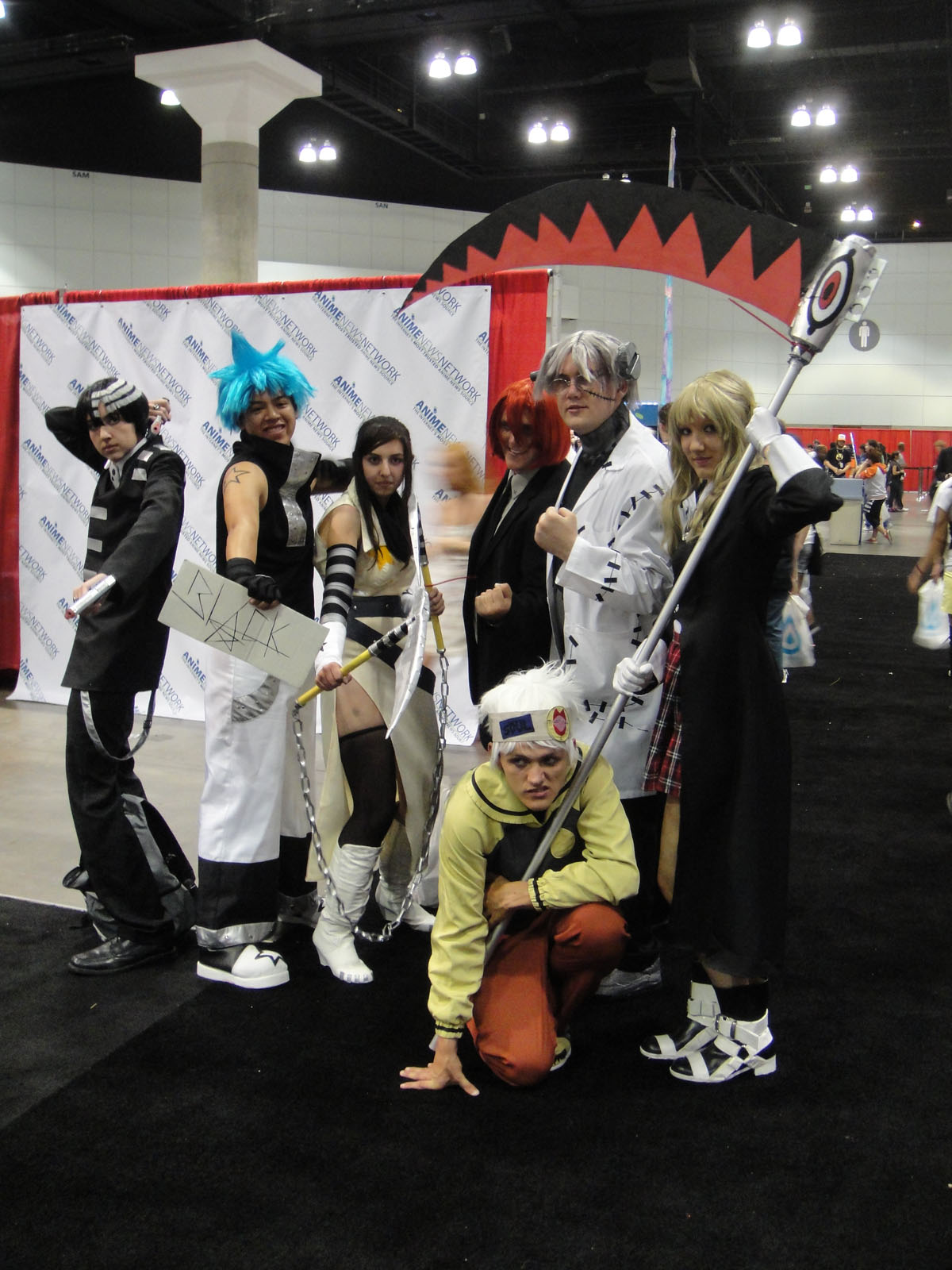 Group photograph of Soul Eater cosplayers at Anime Expo 2011.